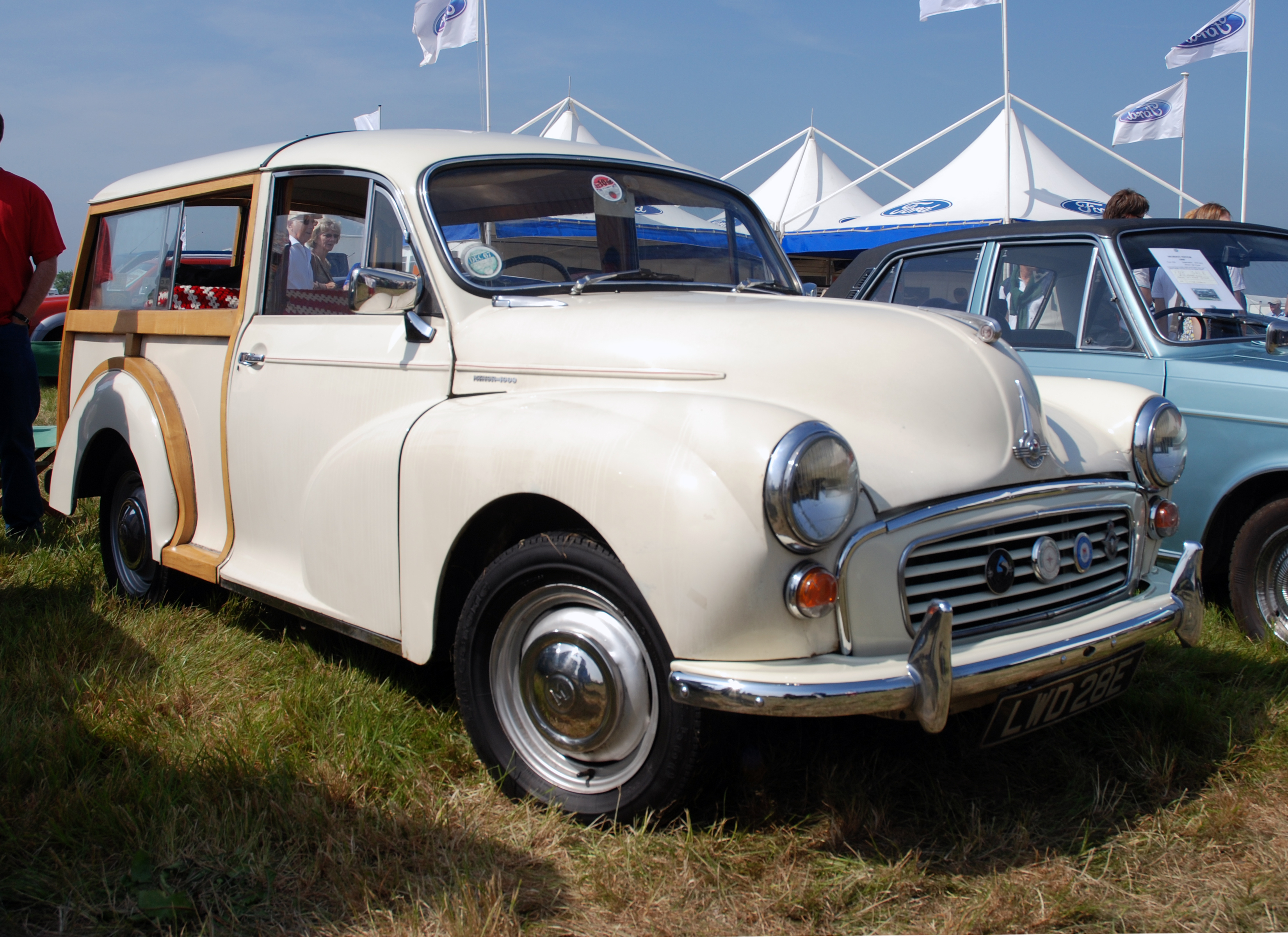 Biggin Hill Air Show,June 2008